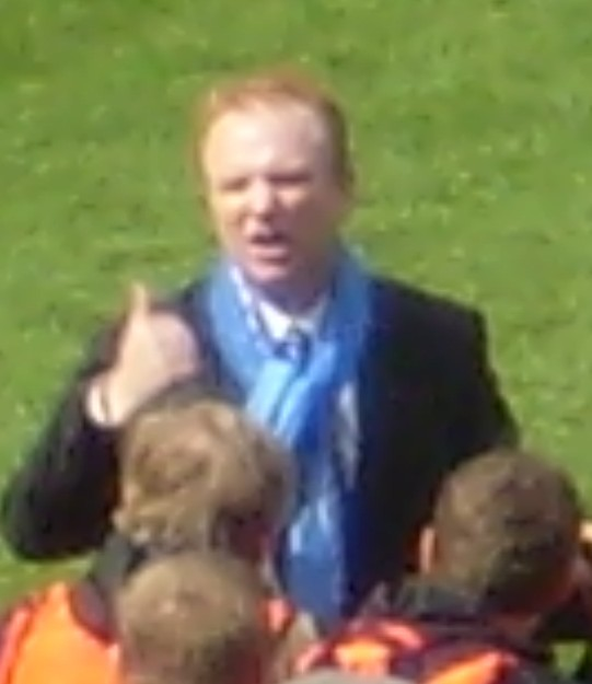 Birmingham City F.C. manager Alex McLeish interviewed on the pitch after his club won promotion from the Football League Championship to the Premier League on the last day of the 2008–09 season